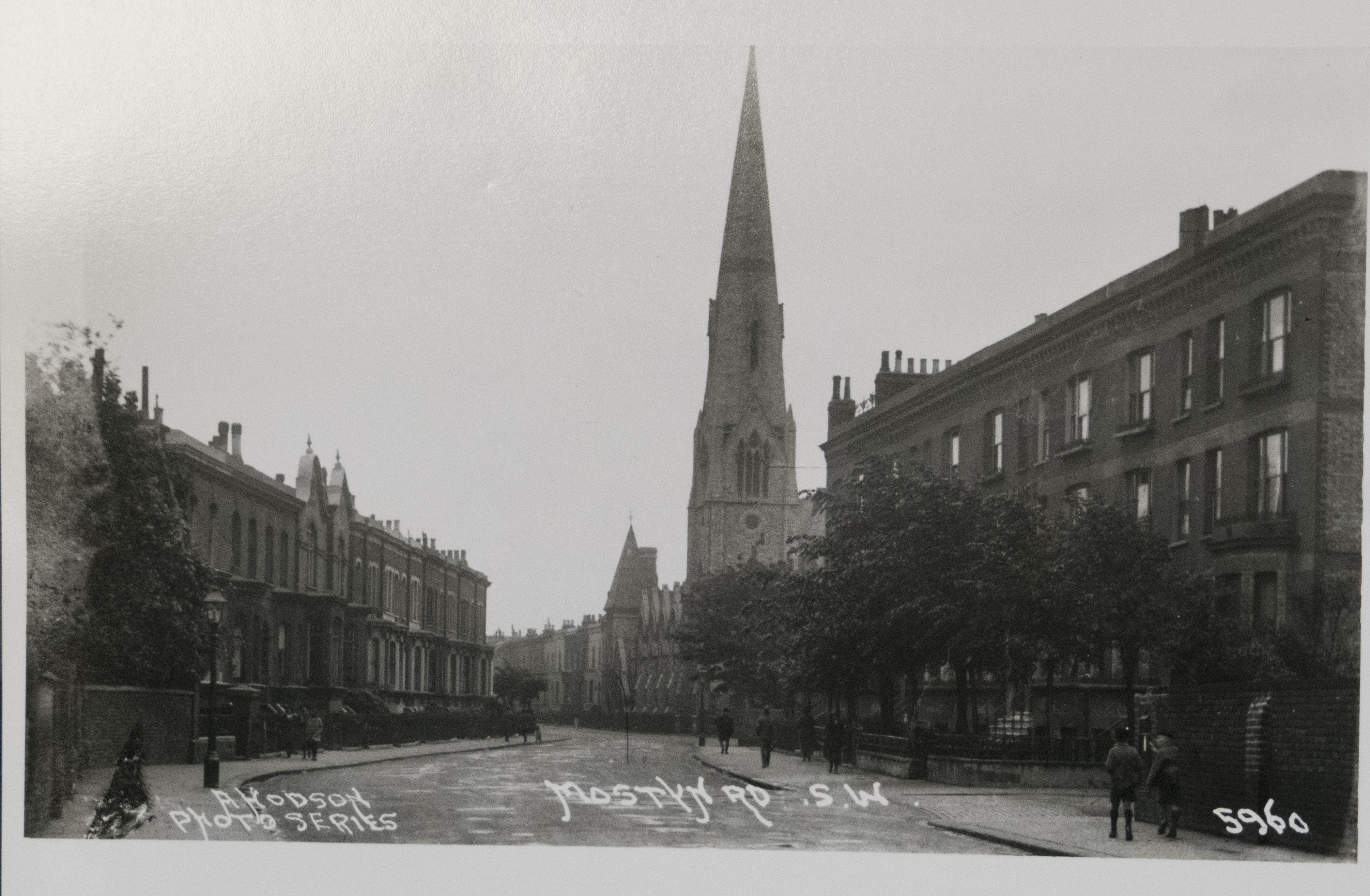 Mostyn Road, Lambeth. Showing the Methodist Church which was demolished in c1982.